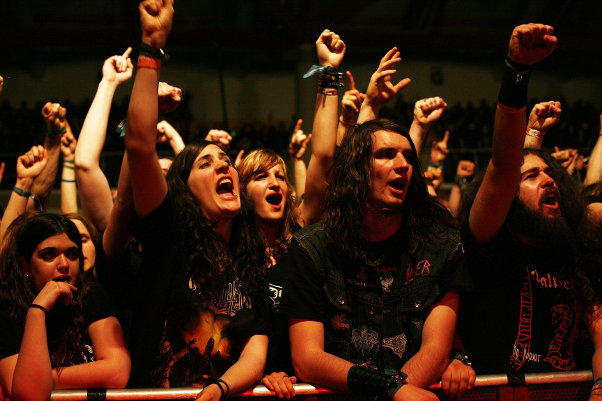 Fans at the Ragnarök-Festival 2009